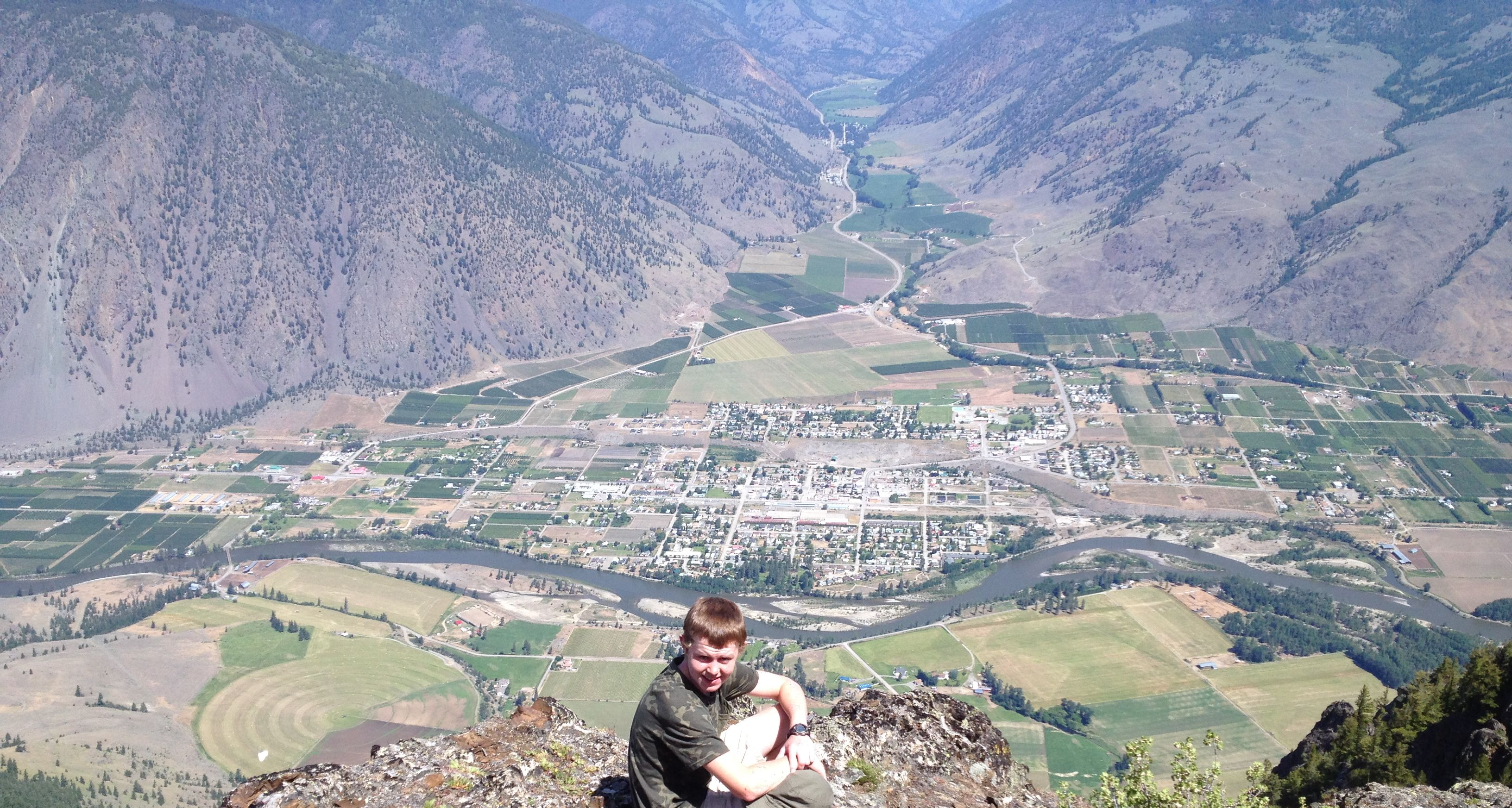 Keremeos from K-Mountain June 2014